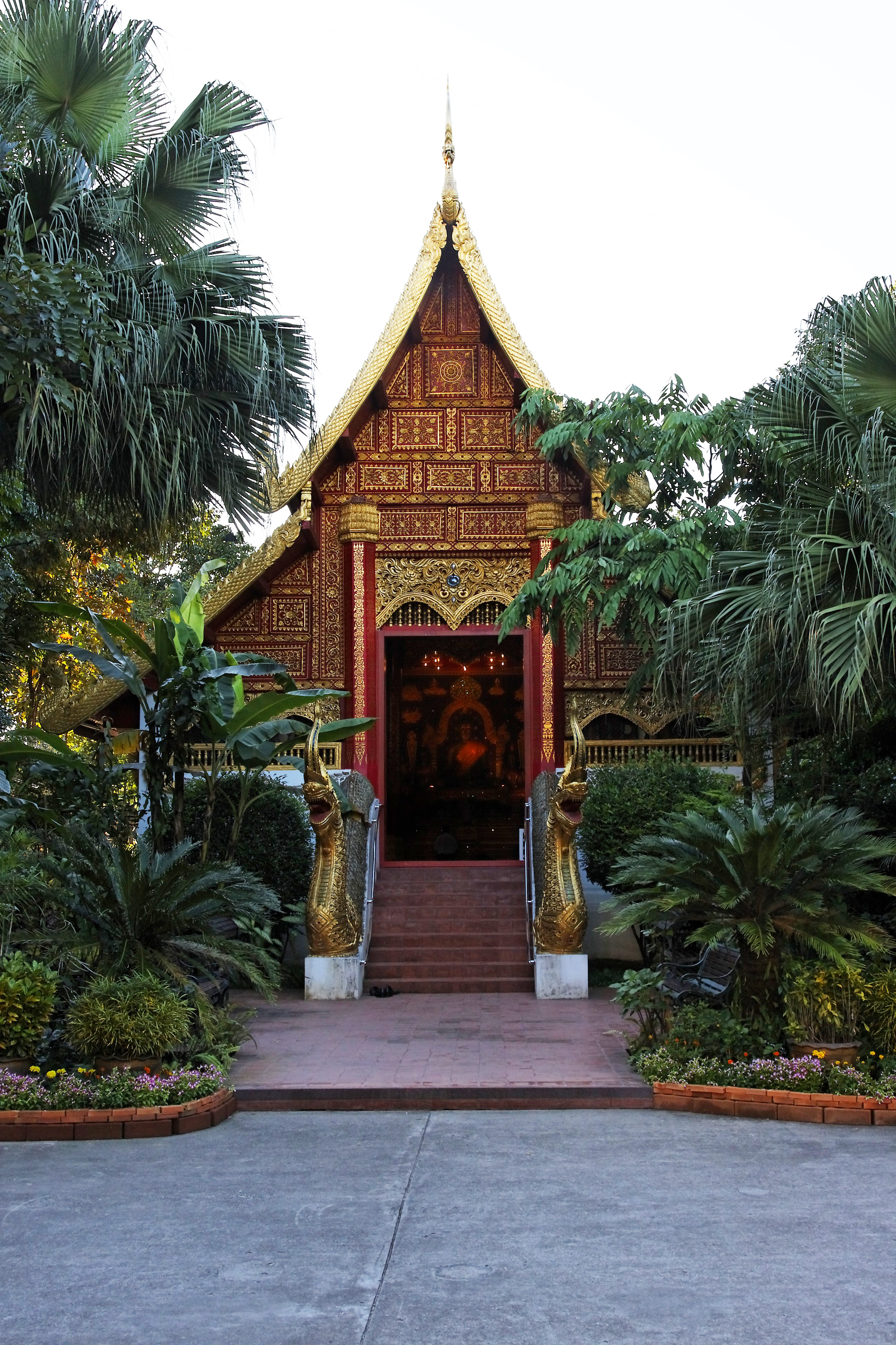 Entrance gardens and facade of Wat Phra Keaw, Chiang Rai, Thailand